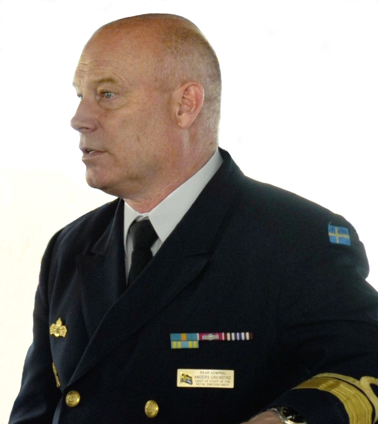 Rear Admiral Anders Grenstad, Chief of Staff of the Royal Swedish Navy 2005-2011